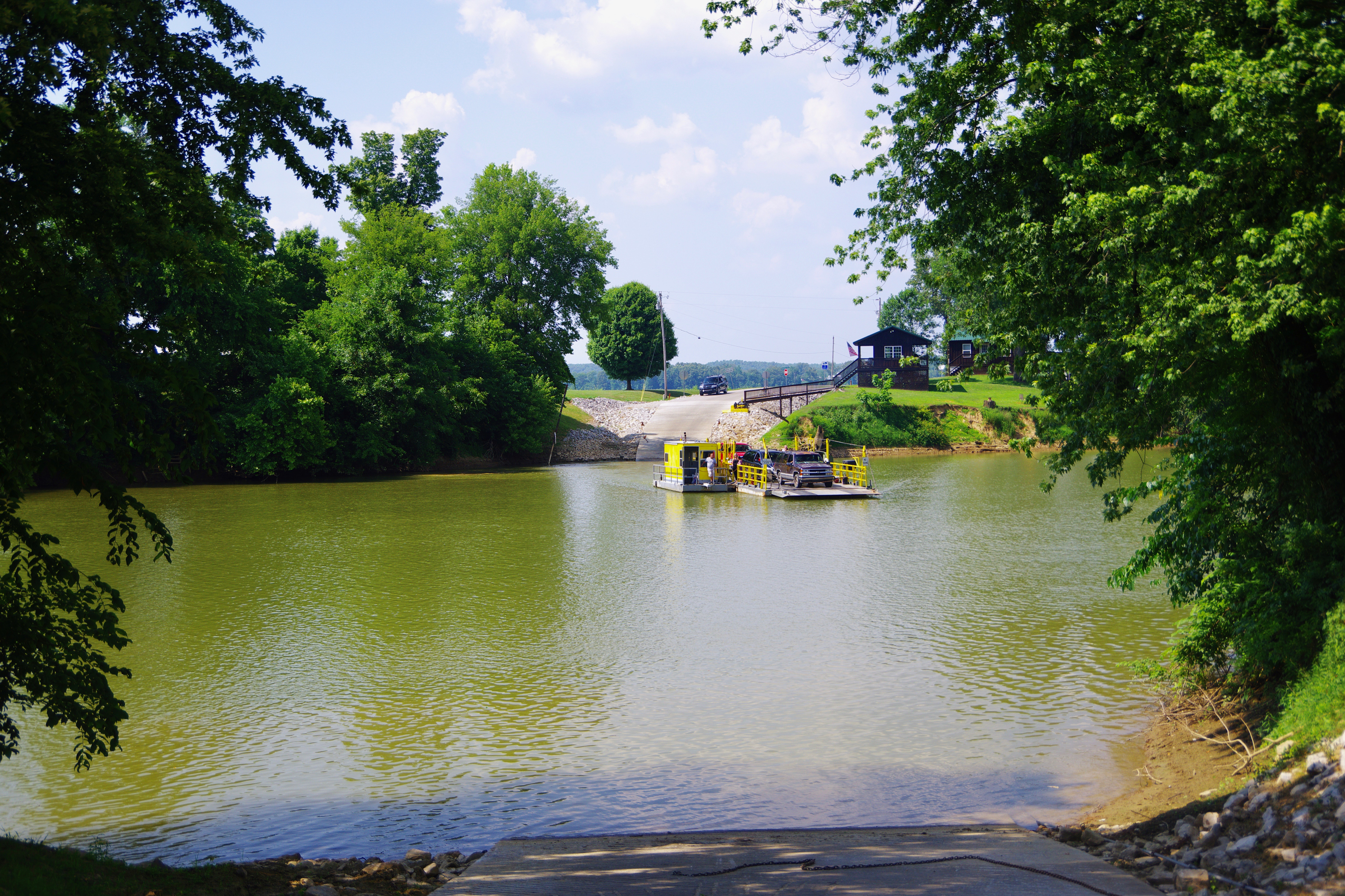 The Rochester Ferry, operating along the Green River in Rochester, Kentucky, United States. The ferry is part of Kentucky Route 369.